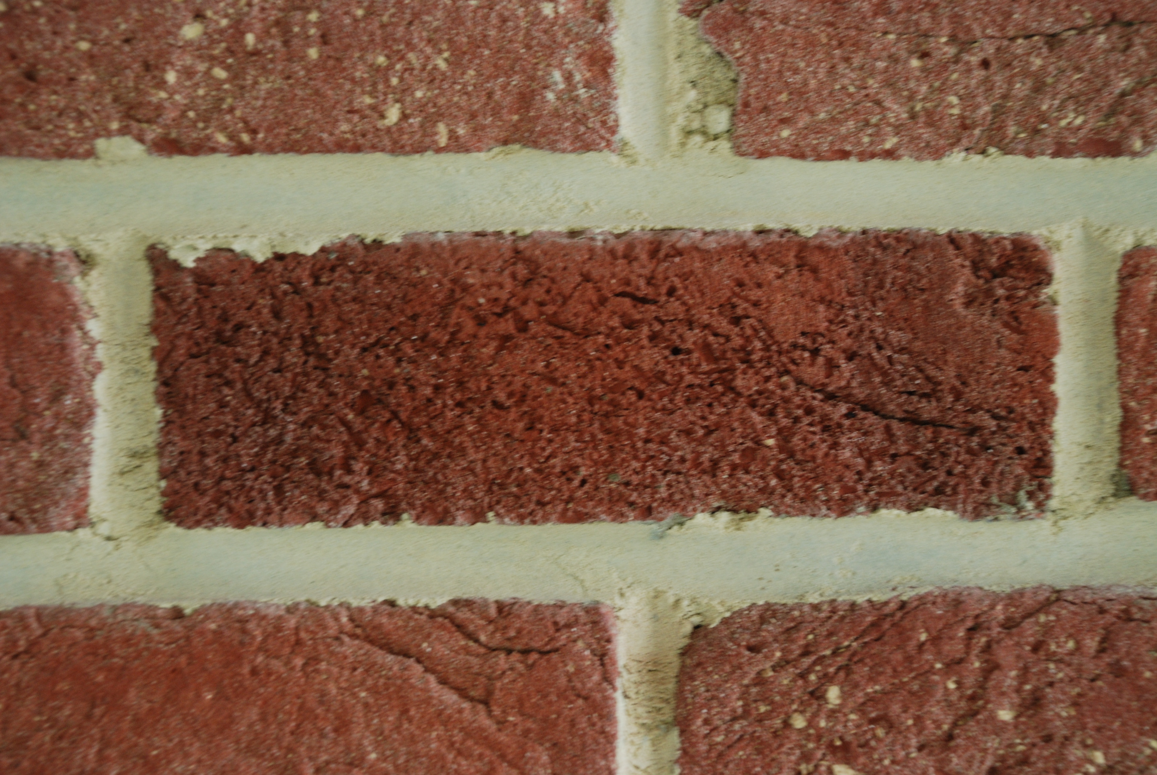 N1brick